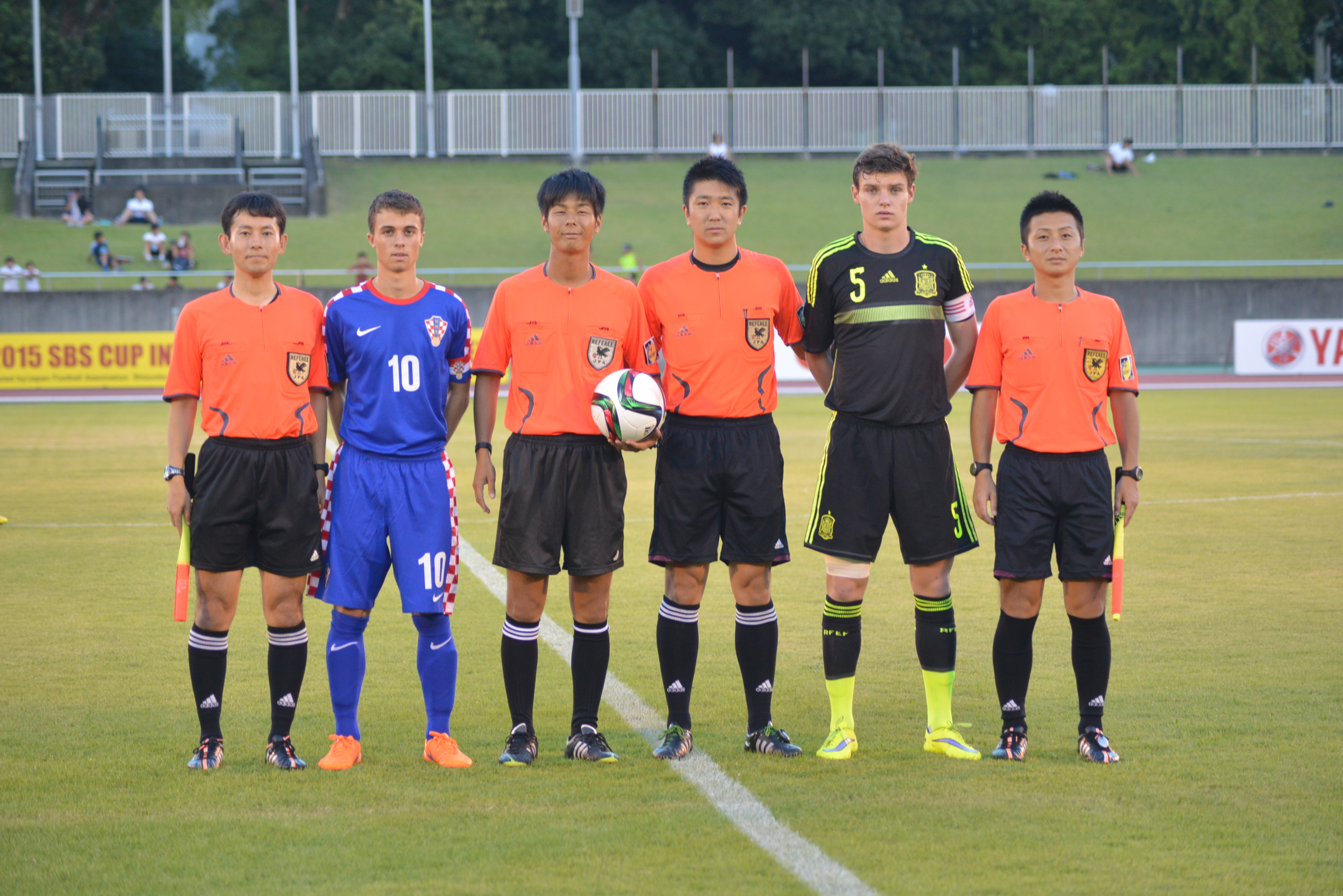 Xiker, captain of Spain in SBS Cup in Japan.